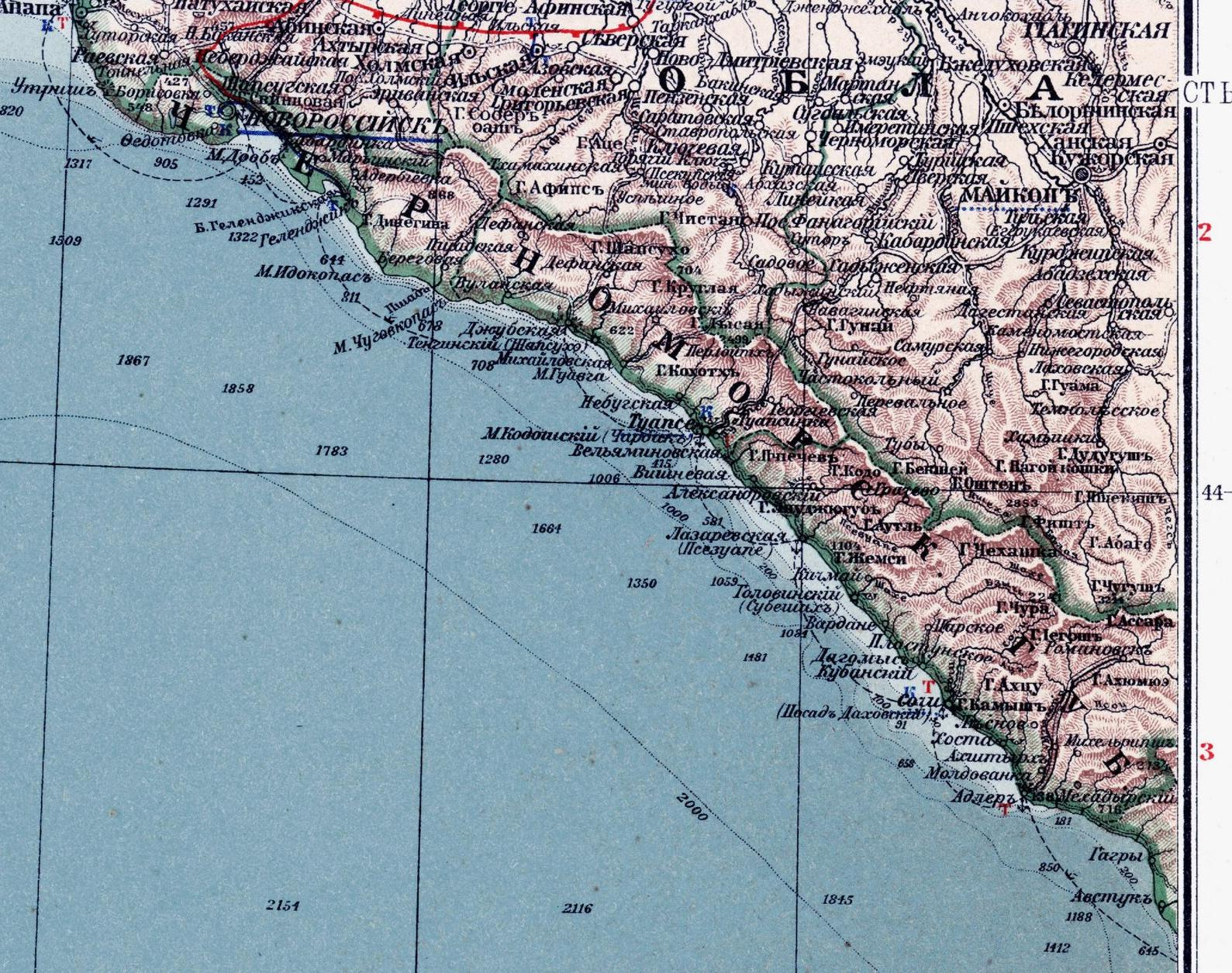 Map of Black Sea Governorate (Russian Empire)